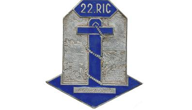 Regimental badge of the 22nd Infantry Regiment colonial. Represents an attack on the fort of Beauséjour in 1915 (France).